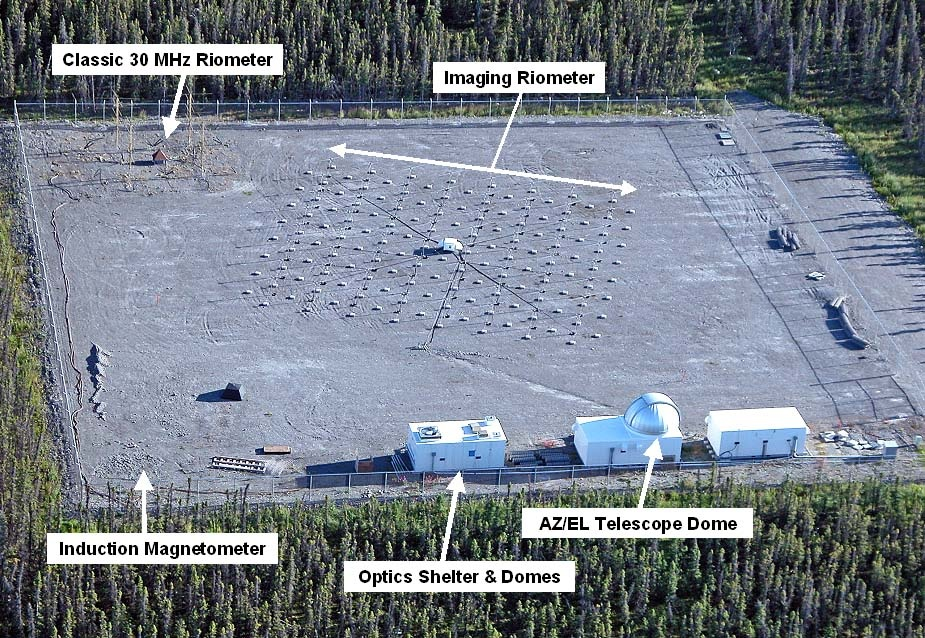 Overview of the HAARP Diagnostic Sensors.